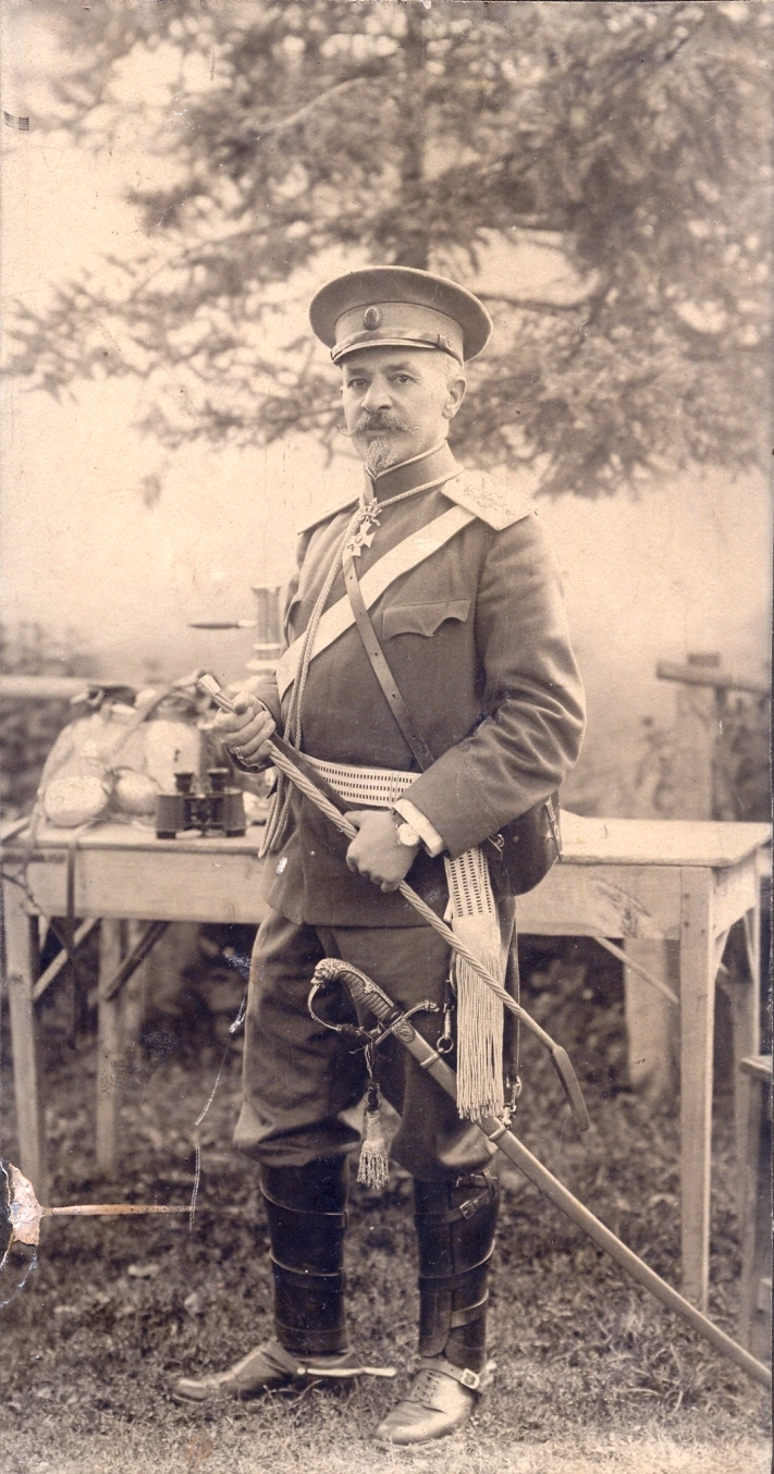 Bulgarian military man Major general Hristo Petrunov